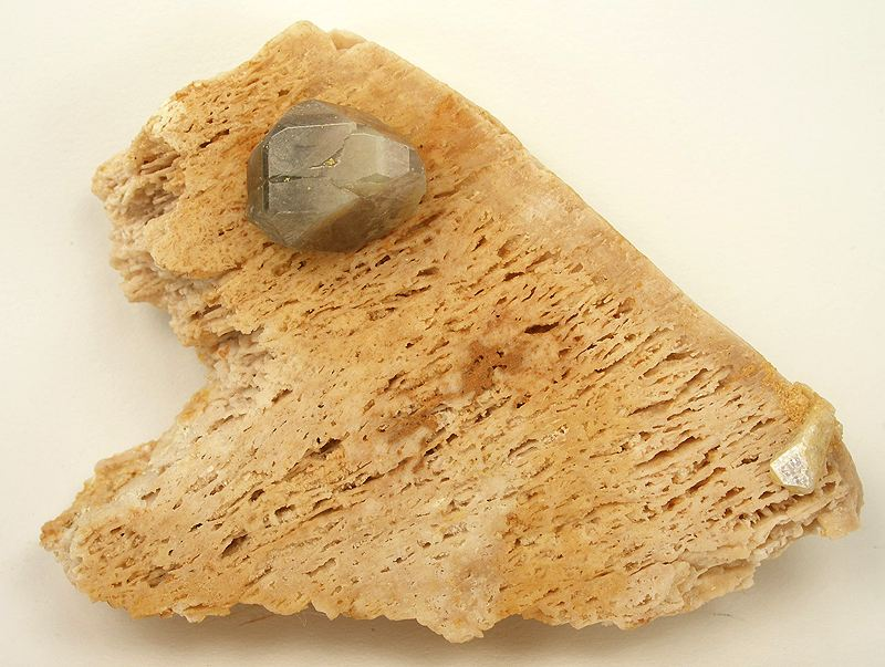 Hydroxylherderite Locality: Virgem da Lapa, Jequitinhonha valley, Minas Gerais, Southeast Region, Brazil (Locality at ) Size: small cabinet, 9.7 x 7.2 x 3.1 cm Hydroxylherderite An approximately 2 x 2 x 1.5 cm sharp lavender-colored crystal, smartly perched as it were emerging from the matrix of feldspar. The crystal is 3-Dimensional, and complete all around, totally pristine. The matrix is actually a shard of a feldspar crystal, seemingly re-healed and complete-all-around.